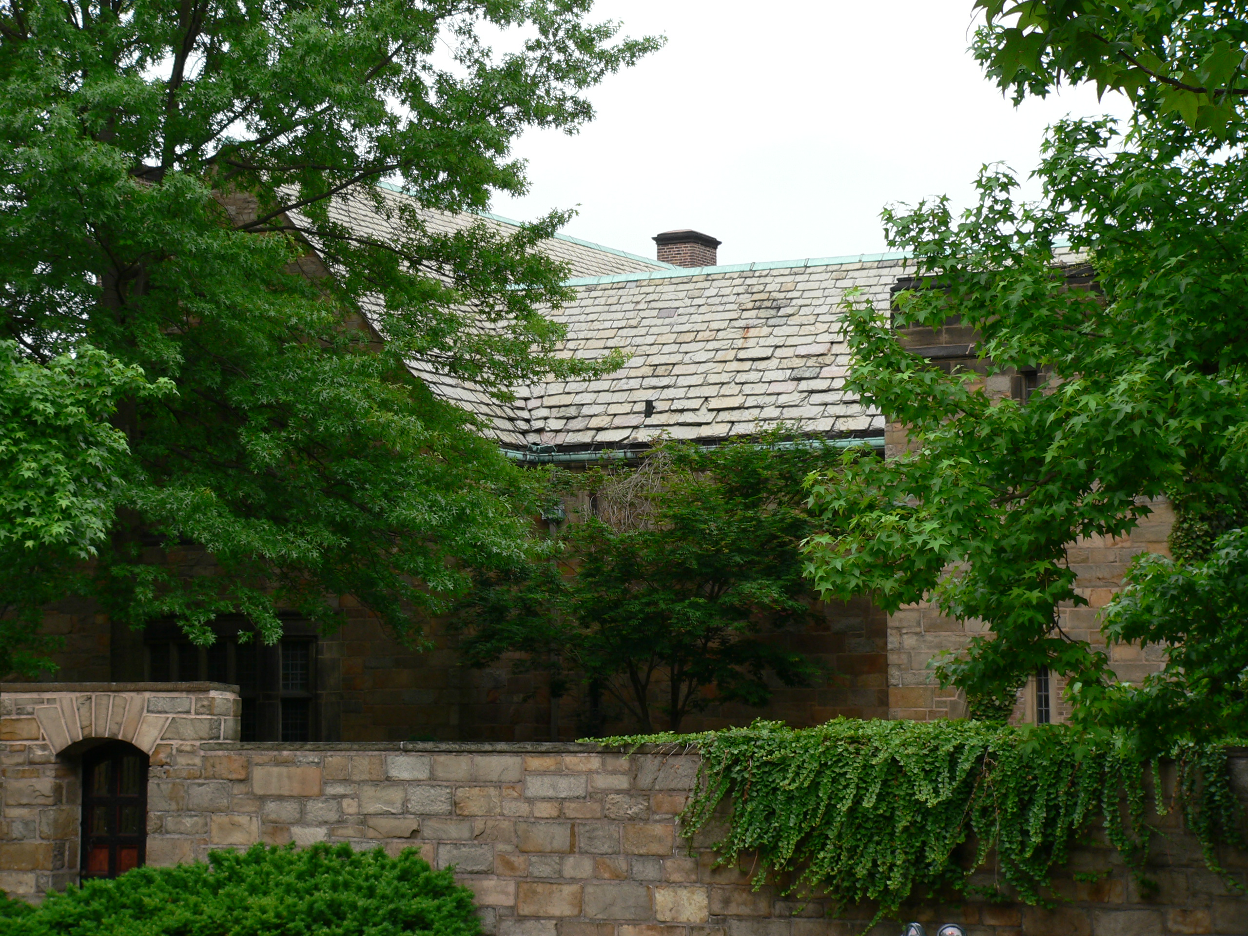 I took this photo depicting Yale's historic Wolf's Head Society, designed by Bertram Grosvenor Goodhue, behind its high stone wall. Picture taken June 2007.